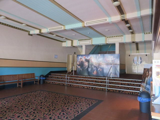 Saraton Theatre